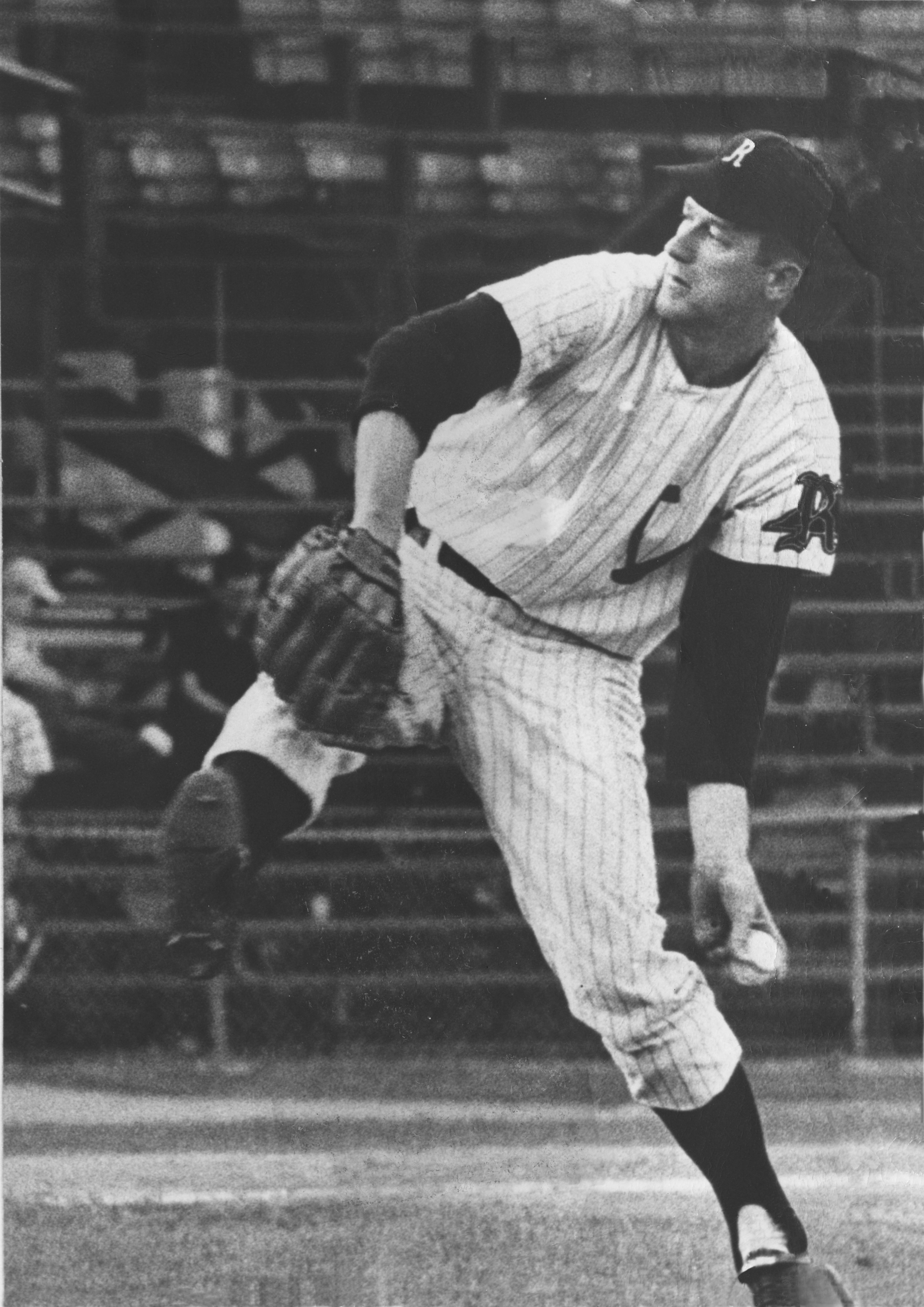 Action shot of Fred Kipp pitching.